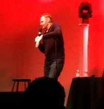 Funnyman Bill Burr at the Anti Social Comedy tour at The Borgata in Atlantic City. This photo was taken on January 15, 2011.